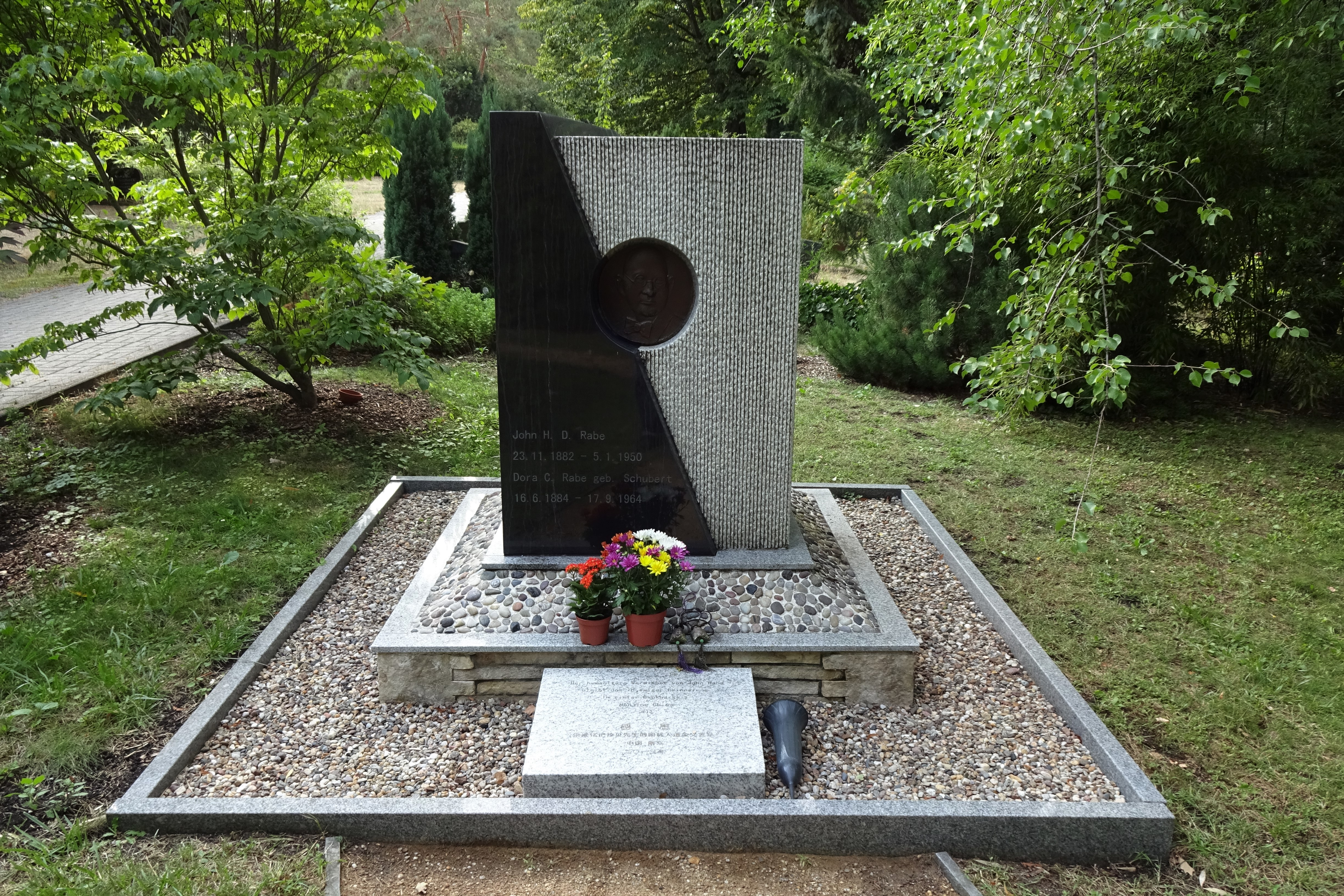 Grave of German businessmen John Rabe in Kaiser-Wilhelm-Gedächtnis-Friedhof in Berlin-Charlottenburg. Rabe assisted Chinese people during the Nanking Massacre